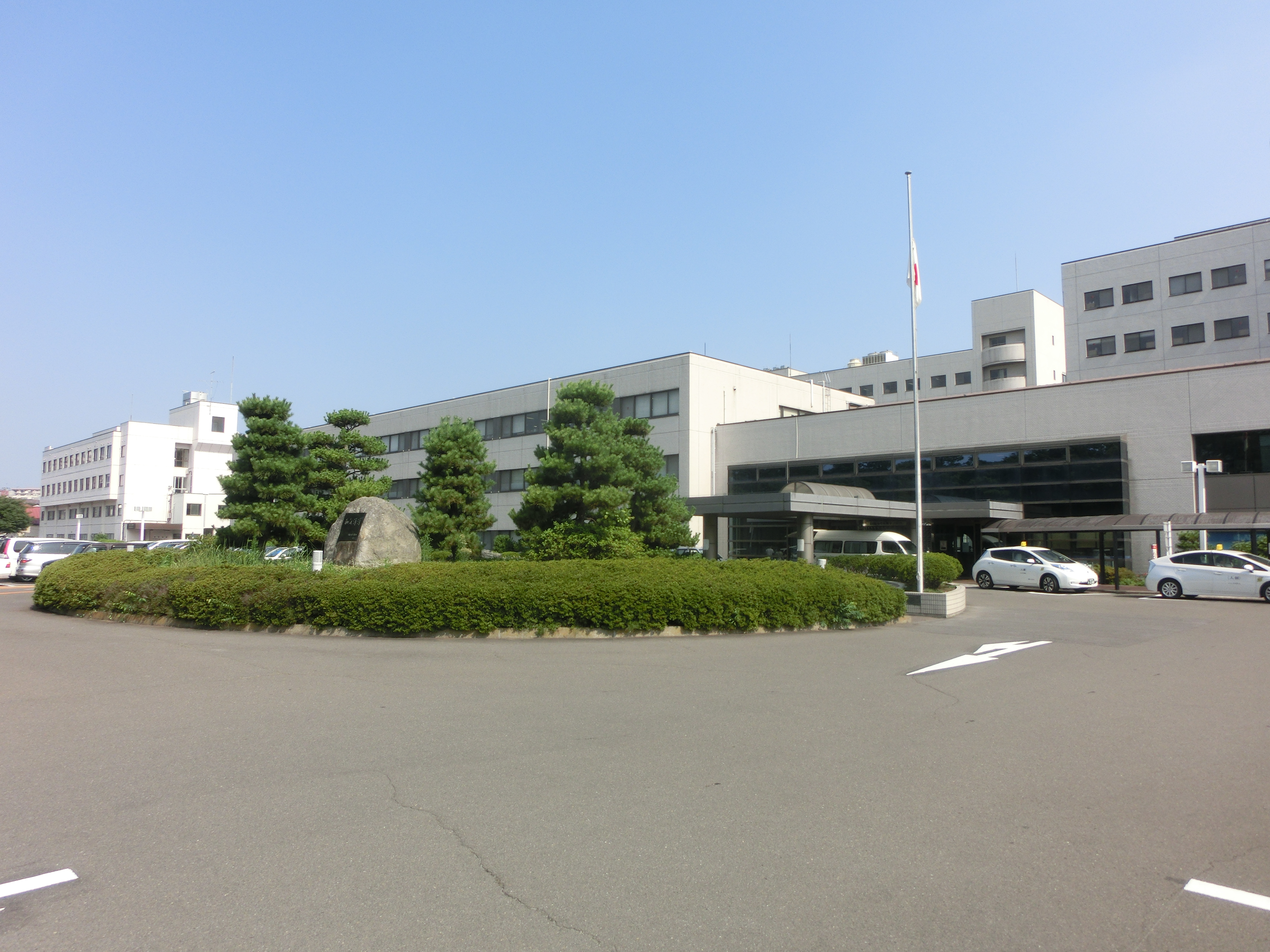 Sendai Medical Center